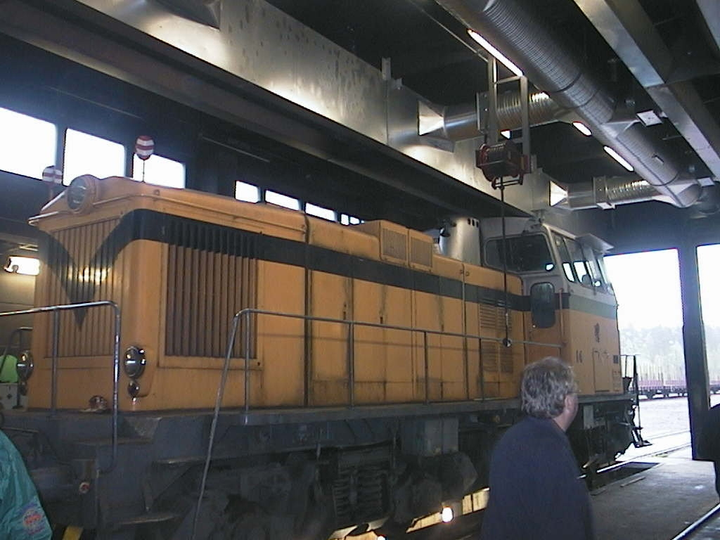 Move 90 diesel locomotive, owned by UPM-Kymmene Corporation, in Kuusankoski, Finland